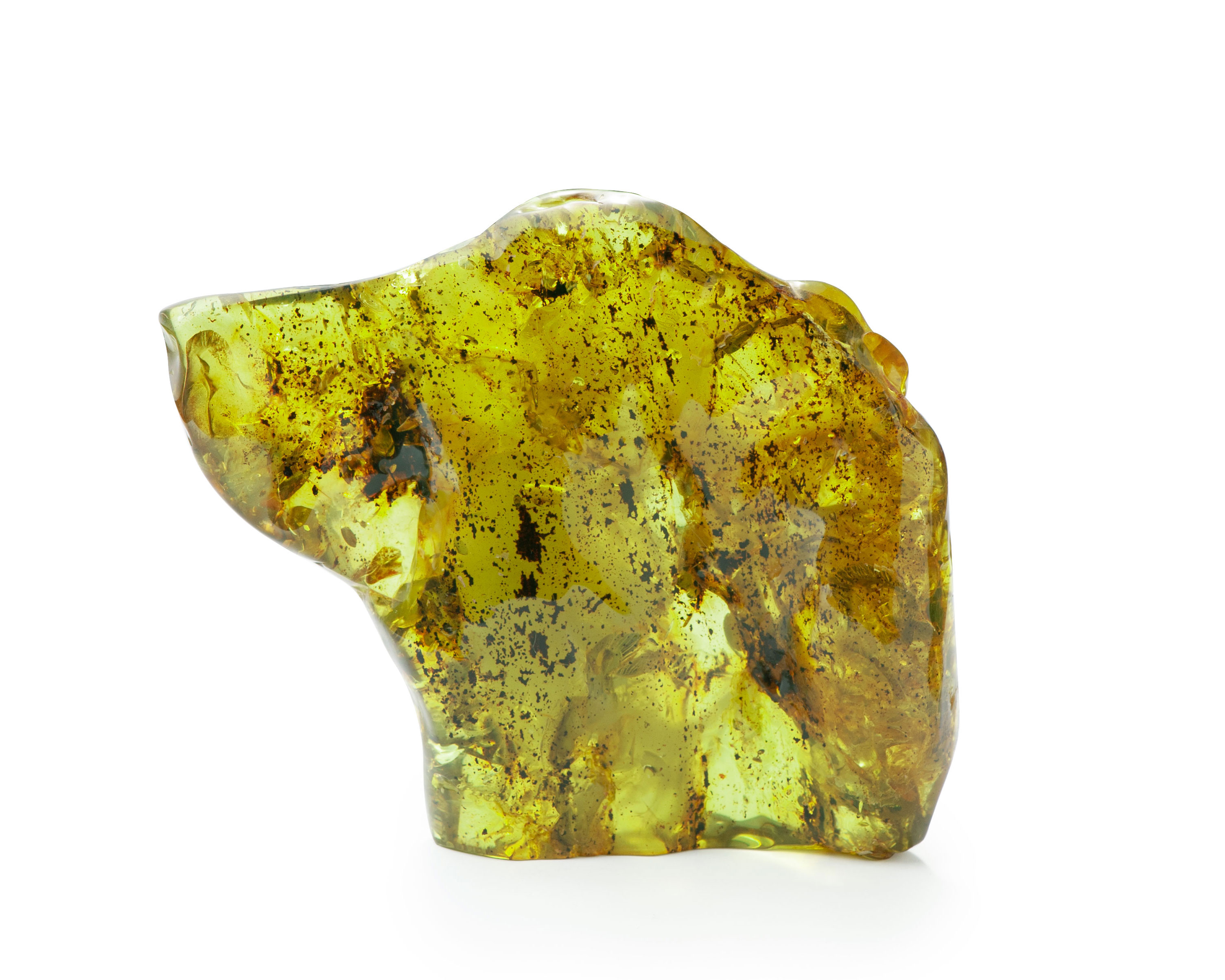 Amber block found in the Caribbean